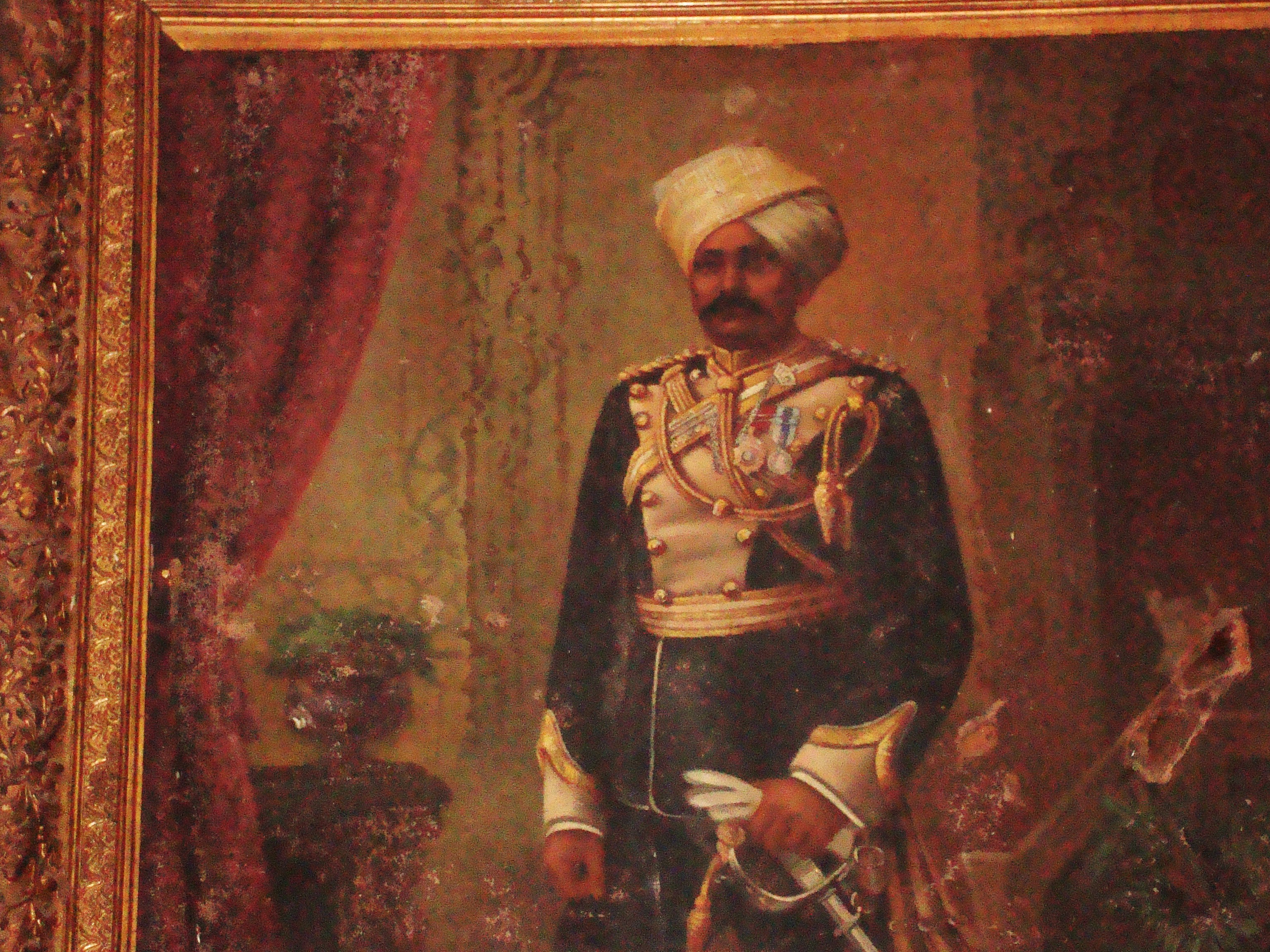 Col Hashim nawaz jung bahadur